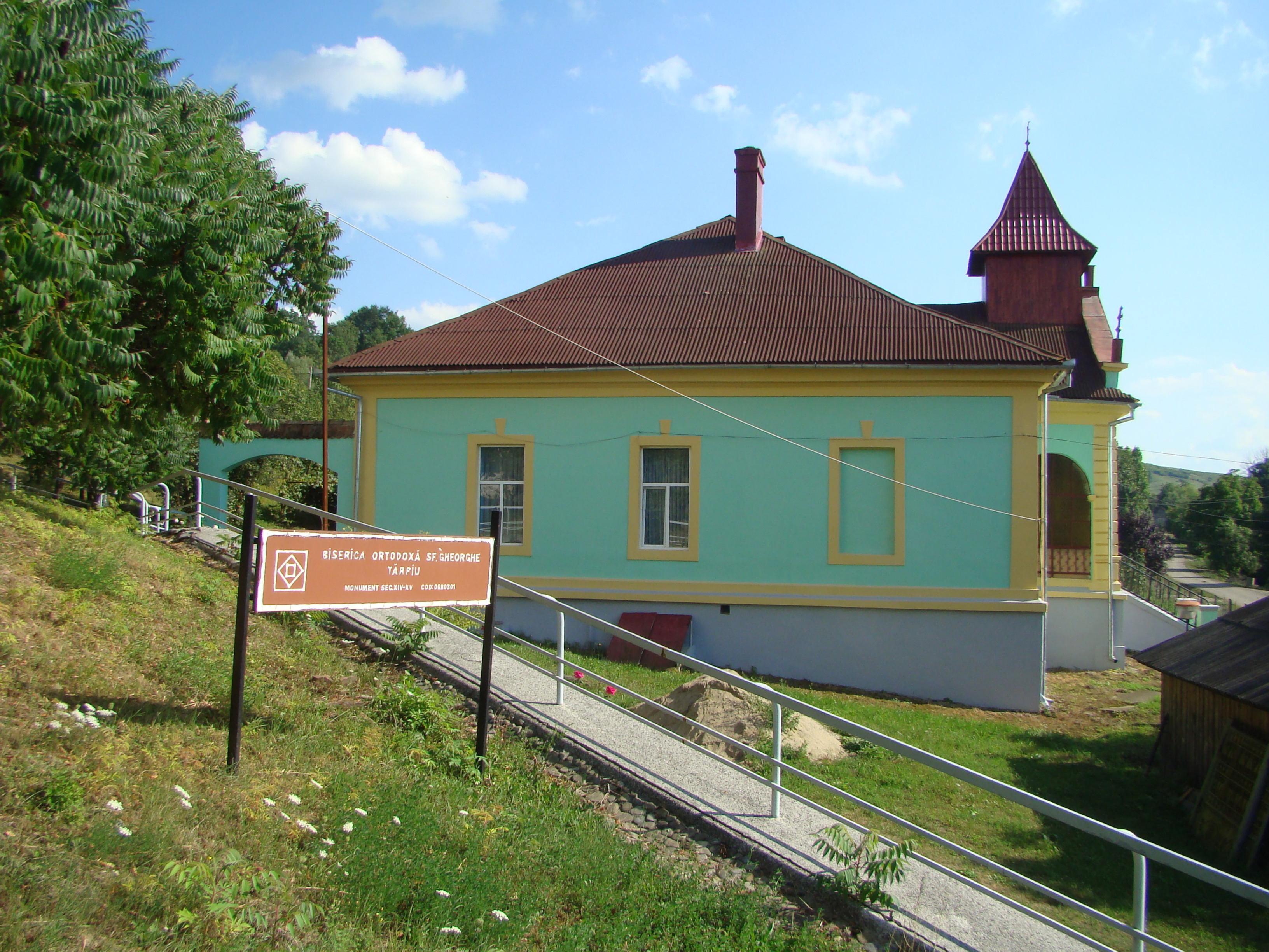 Lutheran church in Tărpiu, Bistrița-Năsăud county, Romania